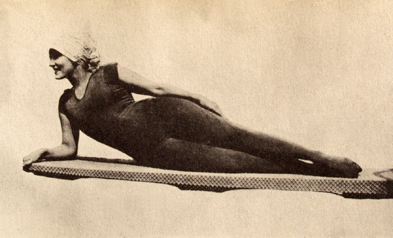 Annette Kellerman reclines on diving board wearing her self-designed swimwear, 1909